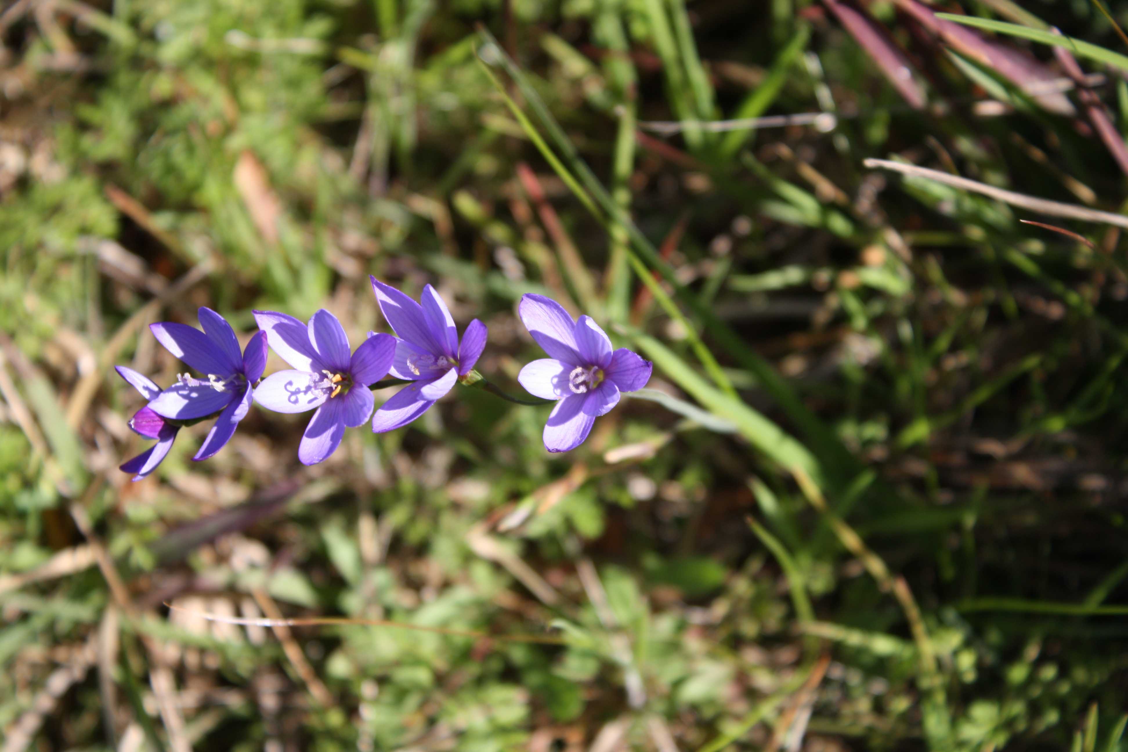 Devil's Peak Cape Town